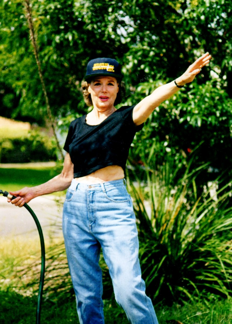 Isabel del Puerto in her garden.